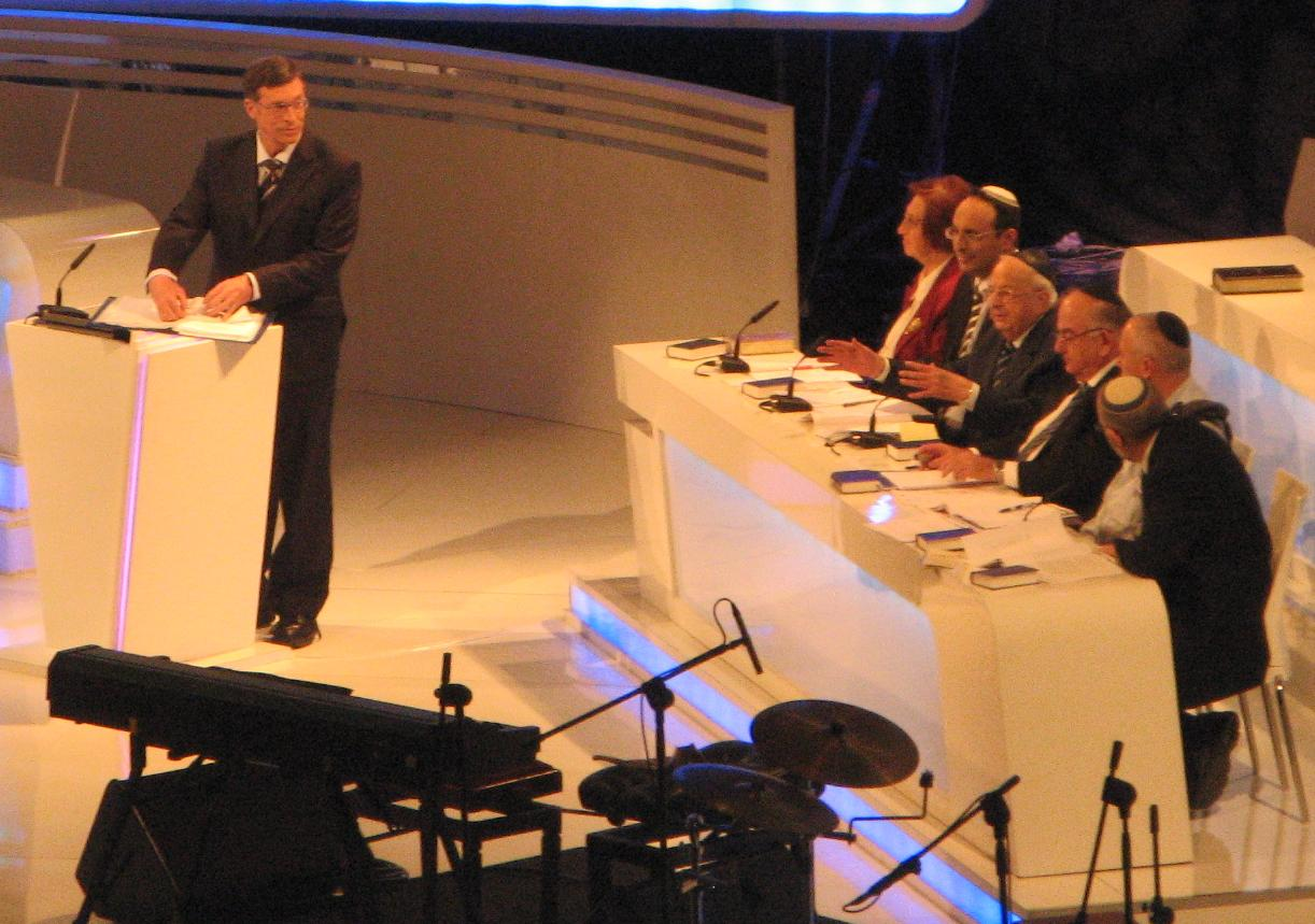 Bible quiz judges 2010